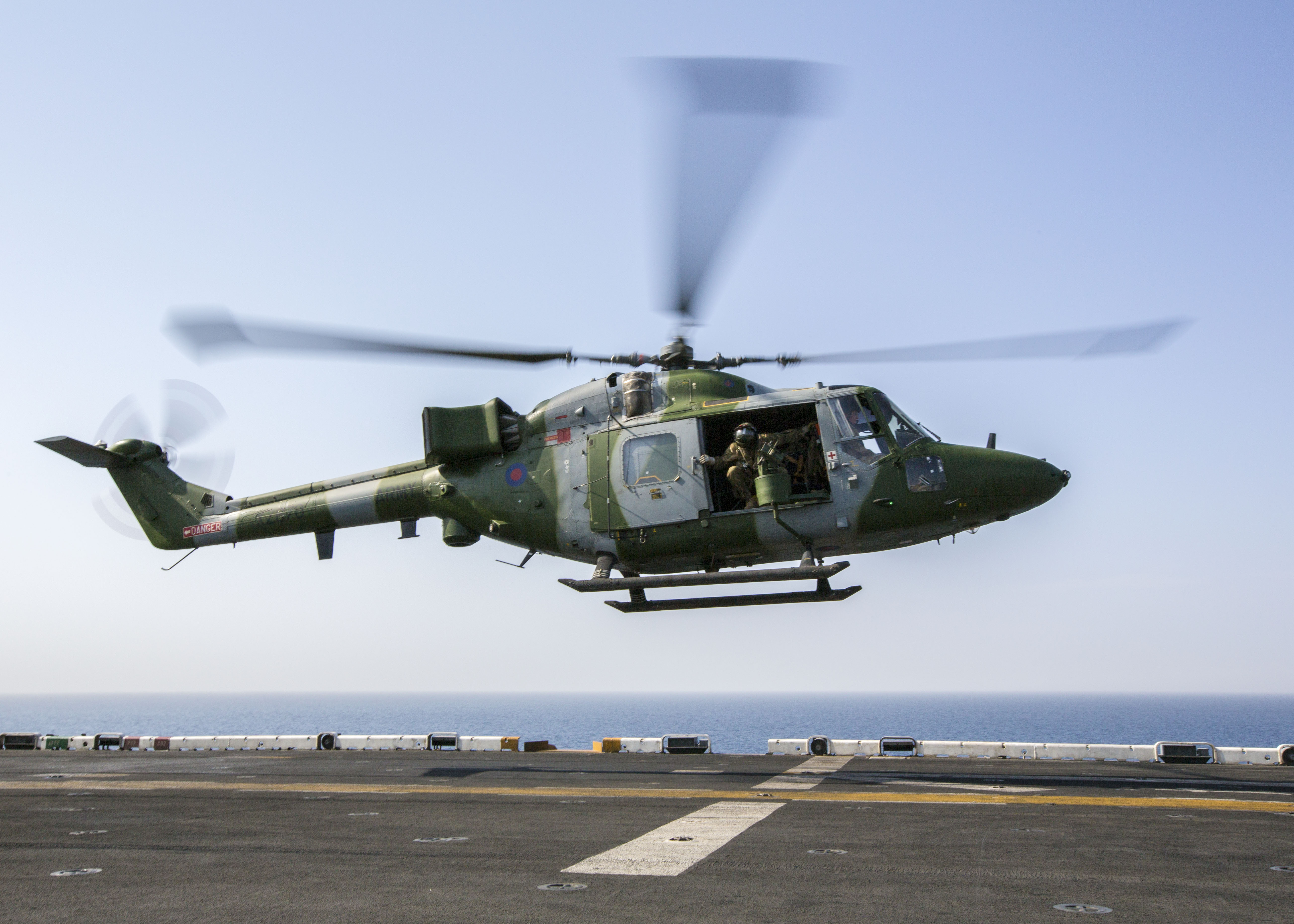 A Westland Lynx battlefield helicopter assigned to United Kingdom’s Army Air Corps lands on the flight deck of the USS Kearsarge (LHD 3) while conducting landing qualifications, at sea, Sept. 15, 2013. The 26th MEU is a Marine Air-Ground Task Force forward-deployed to the U.S. 5th and 6th Fleet areas of responsibility aboard the Kearsarge Amphibious Ready Group serving as a sea-based, expeditionary crisis response force capable of conducting amphibious operations across the full range of military operations. (U.S. Marine Corps photo by Sgt. Christopher Q. Stone, 26th MEU Combat Camera/Released)